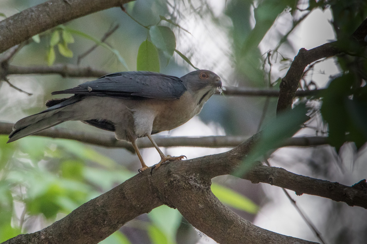 From Sattal Lake Uttarakhand India